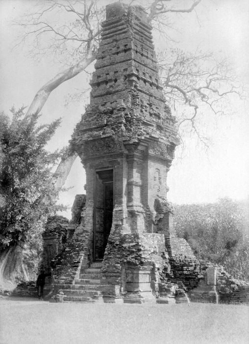 The Candi Bajang Ratu